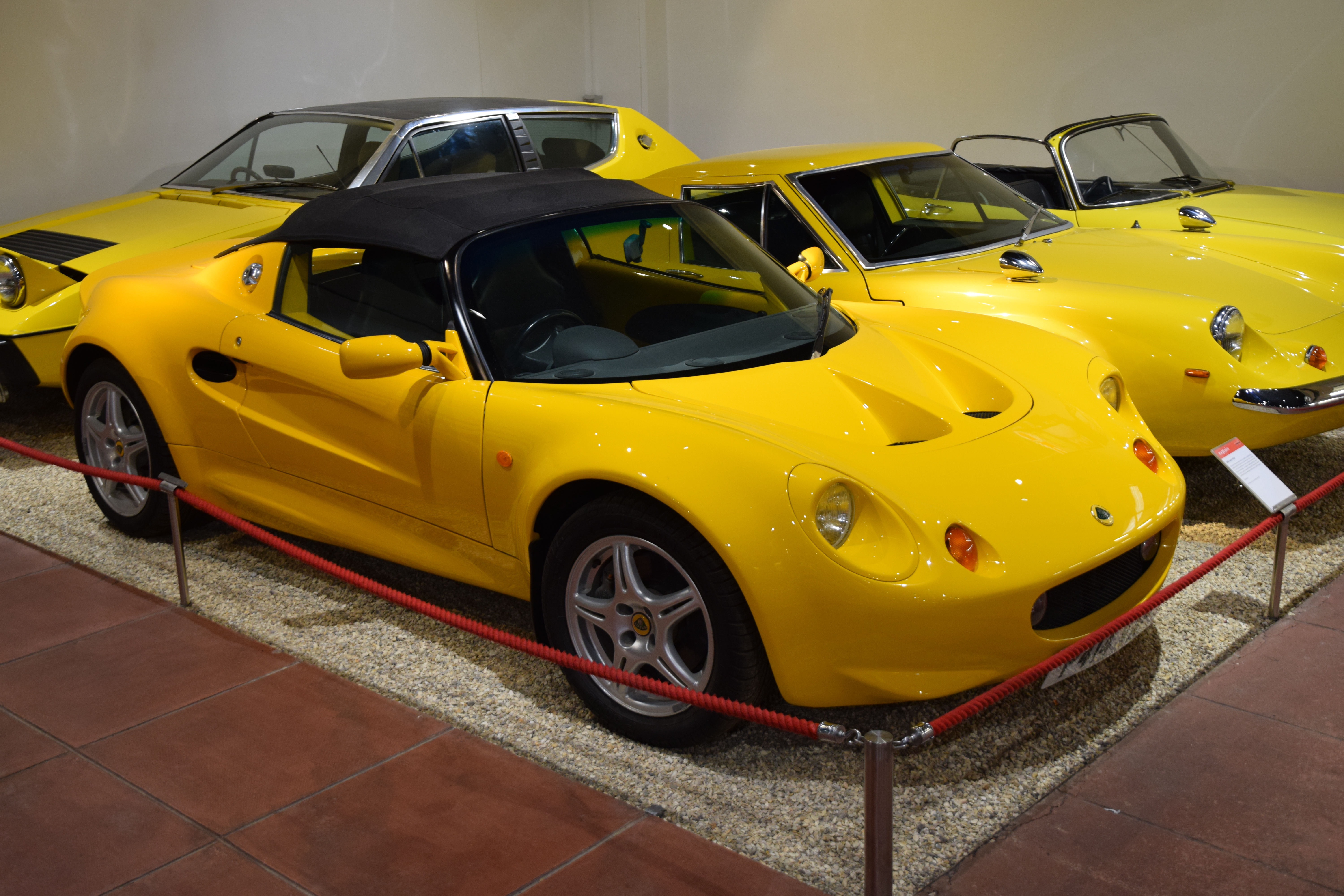 1996 Lotus Elise at the Haynes International Motor Museum, Sparkford, 8 May 2017.